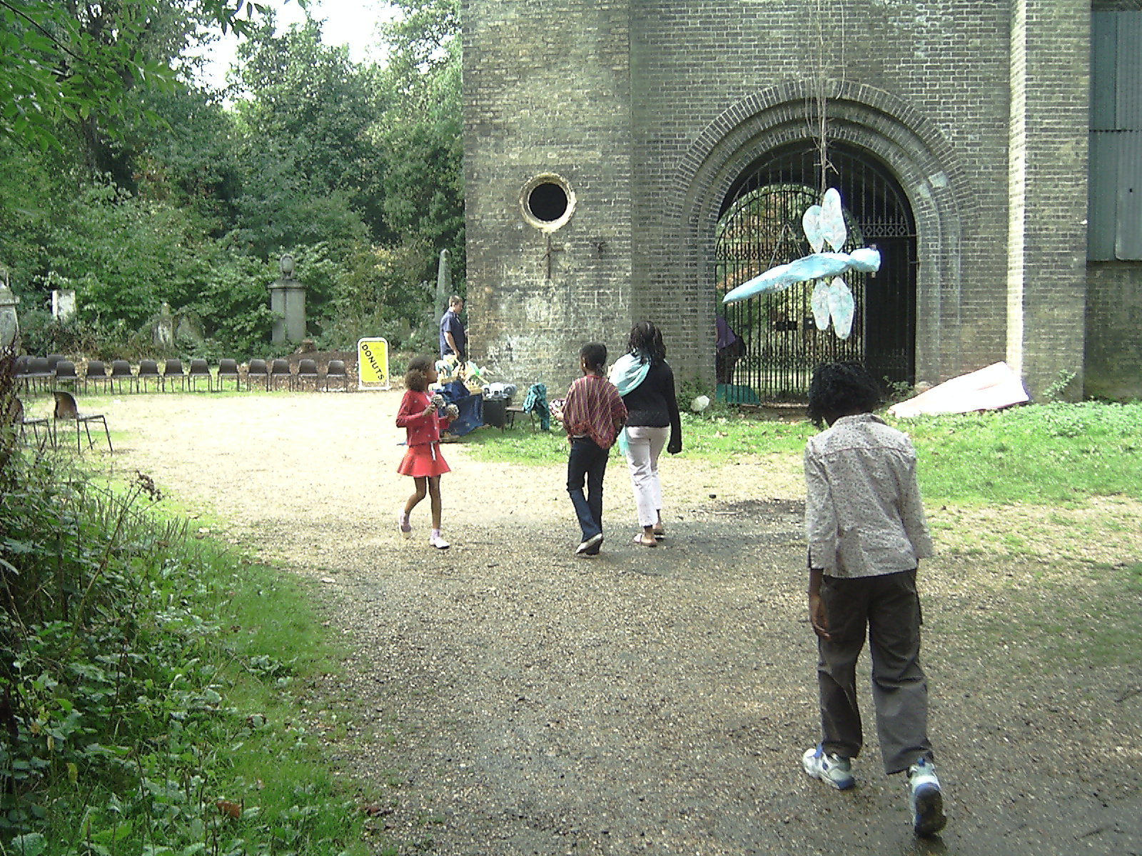 My own photograph taken summer 2005 at Abney park. Part of Abney Park Chapel.